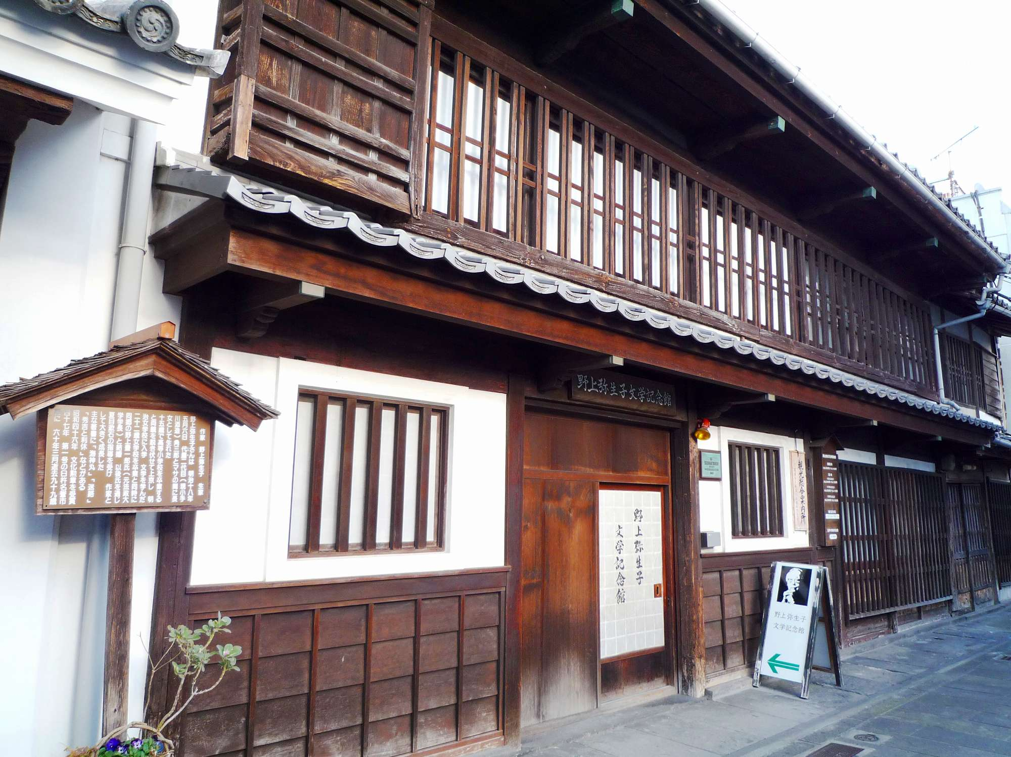 Yaeko Nogami Memorial House(Usuki-City)